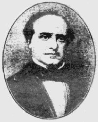 This is a daguerrotype of Ernest Charles Jones, taken in the 1850s